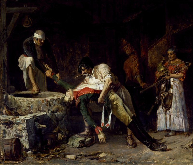 Zamacois y Zabala, Edouardo Spain 1812, French Occupation